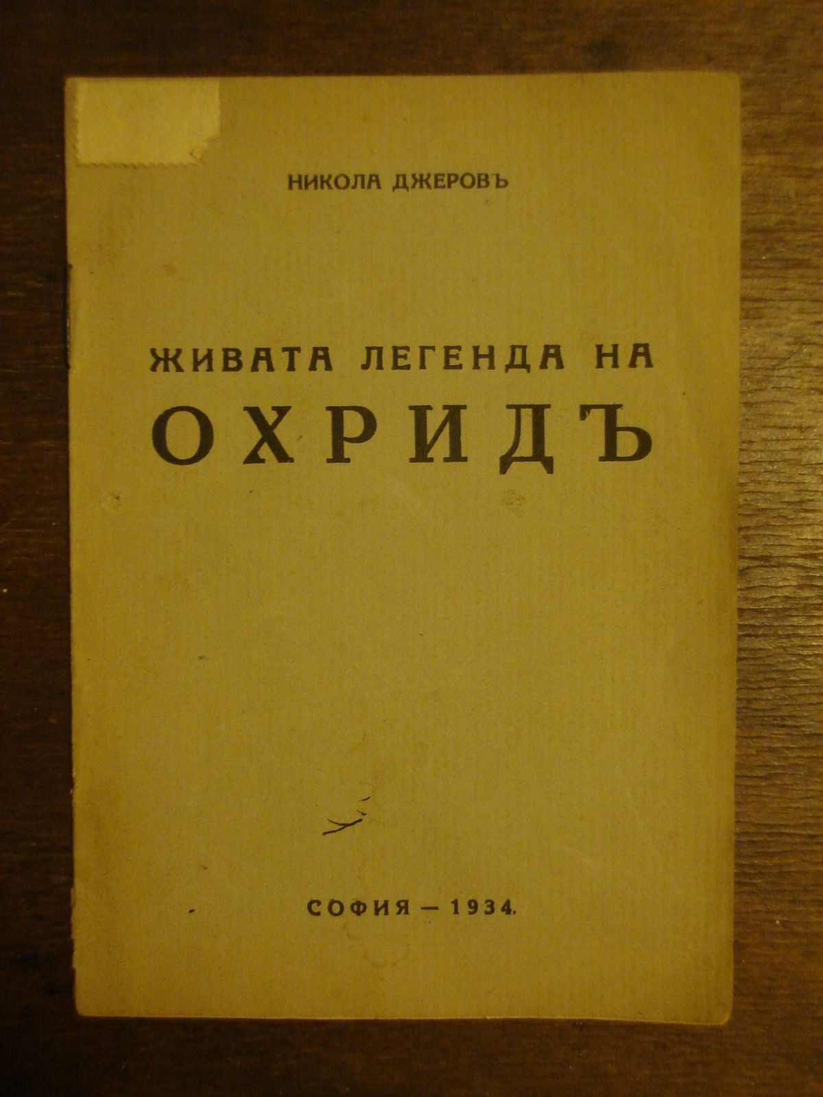 Ohrid by Nikola Dzherov